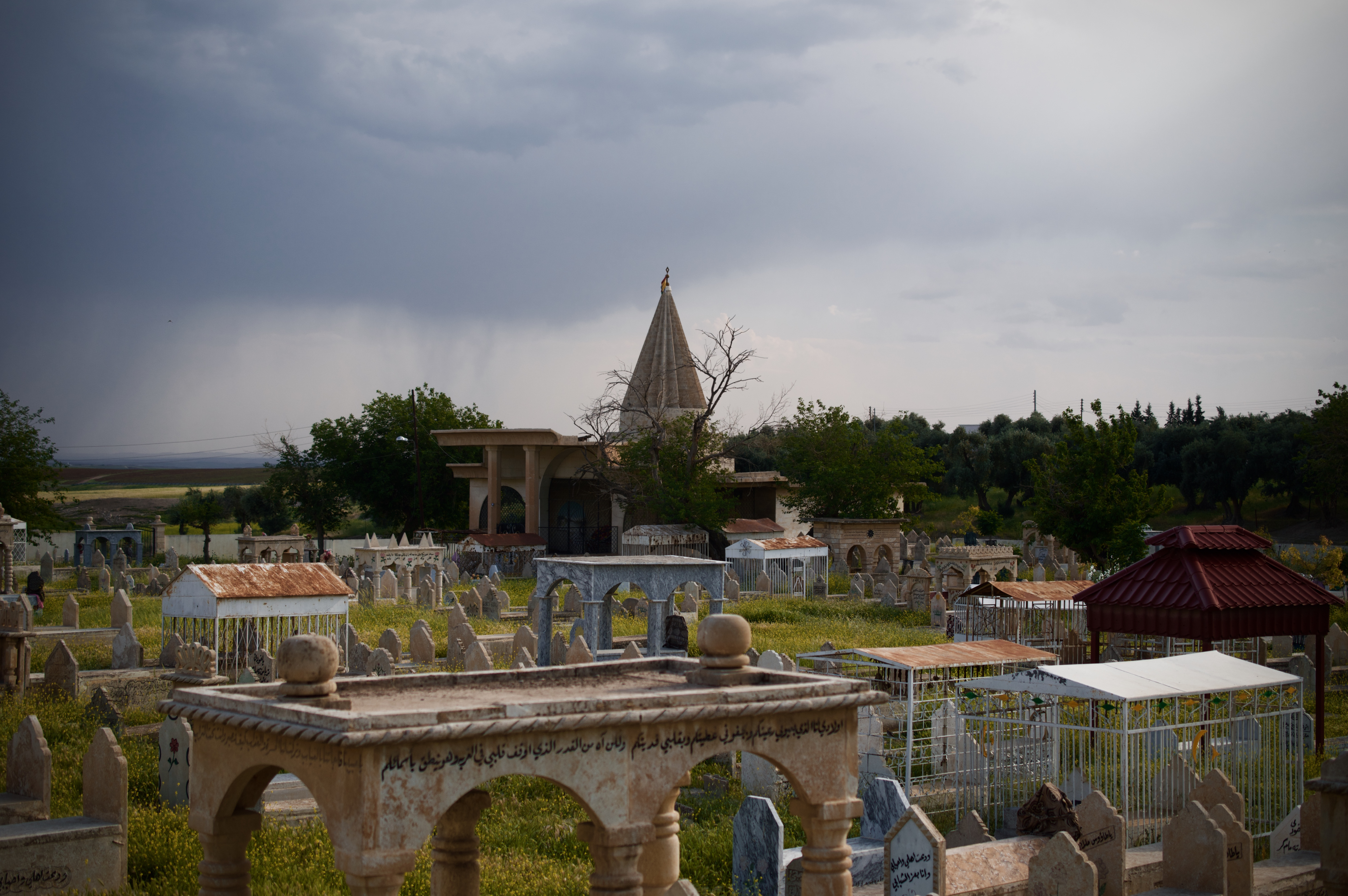 Cemetery in the Yezidi town of Baadre near Sheikhan in Duhok Governorate